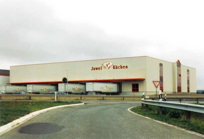 FELKE-Möbelwerke Simmern, Manufacture of the JUWEL-Küchen